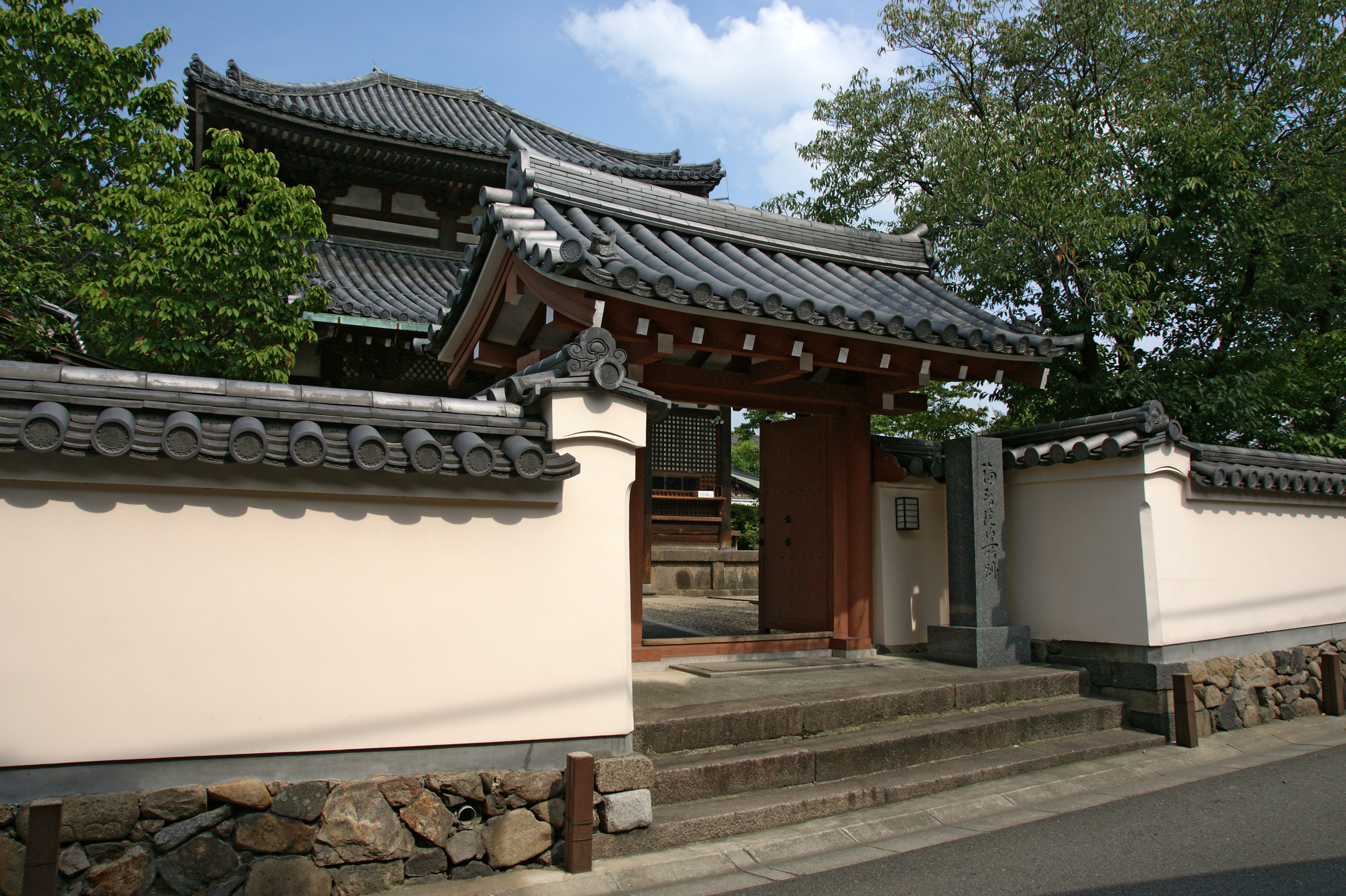 Fukuchiin in Nara, Nara prefecture, Japan